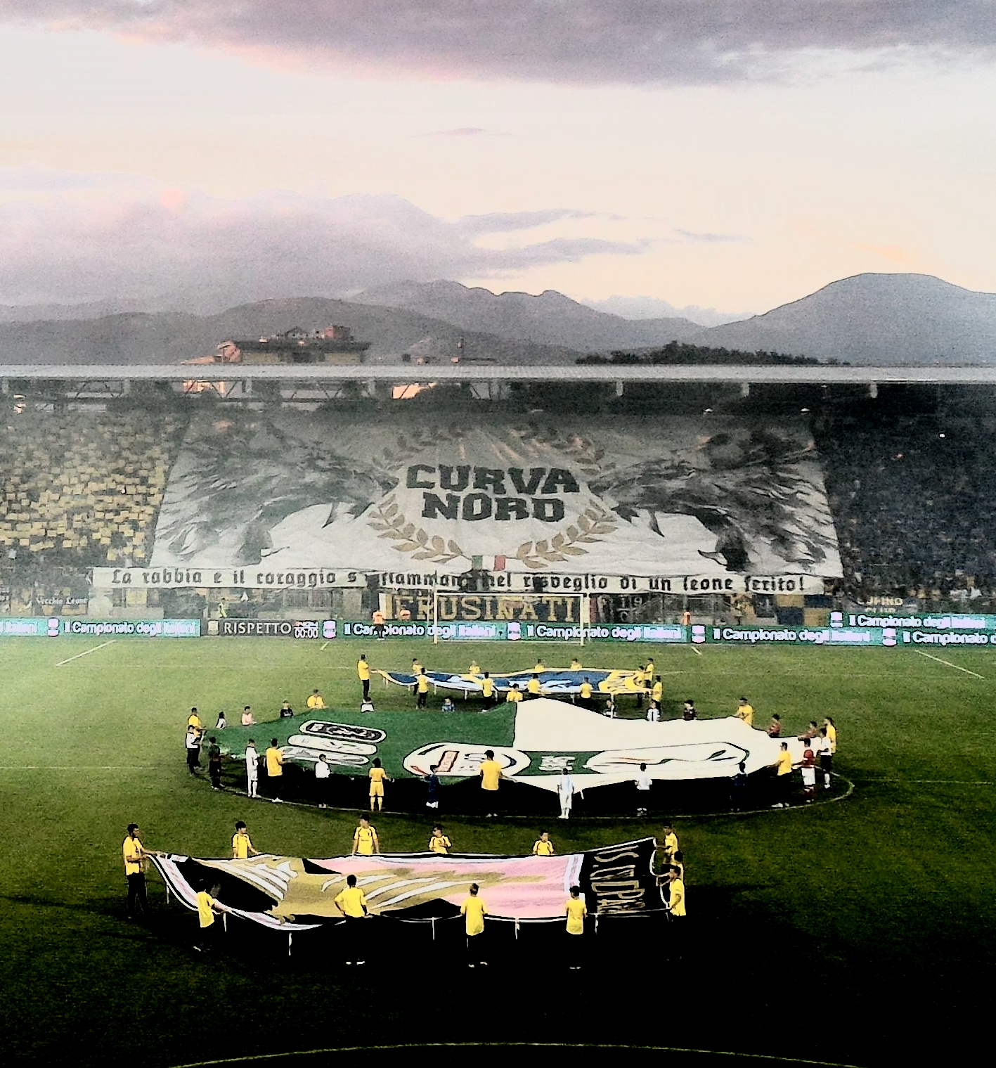 Benito Stirpe Stadium, North Stand, set up of the supporters (Frosinone-Palermo (play-off final) 2-0, 16/06/2018)